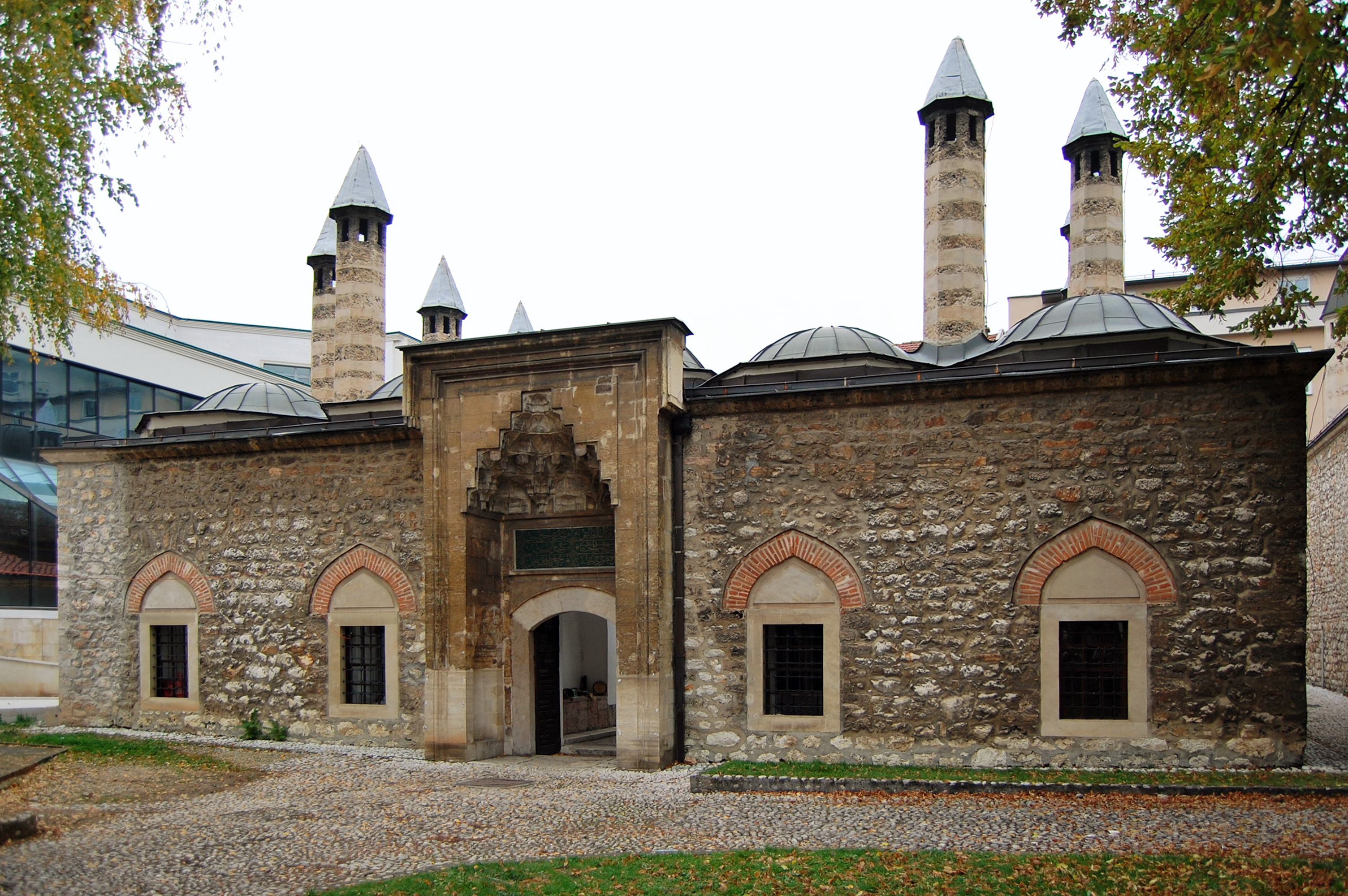 Gazi Husrev-bey's Museum